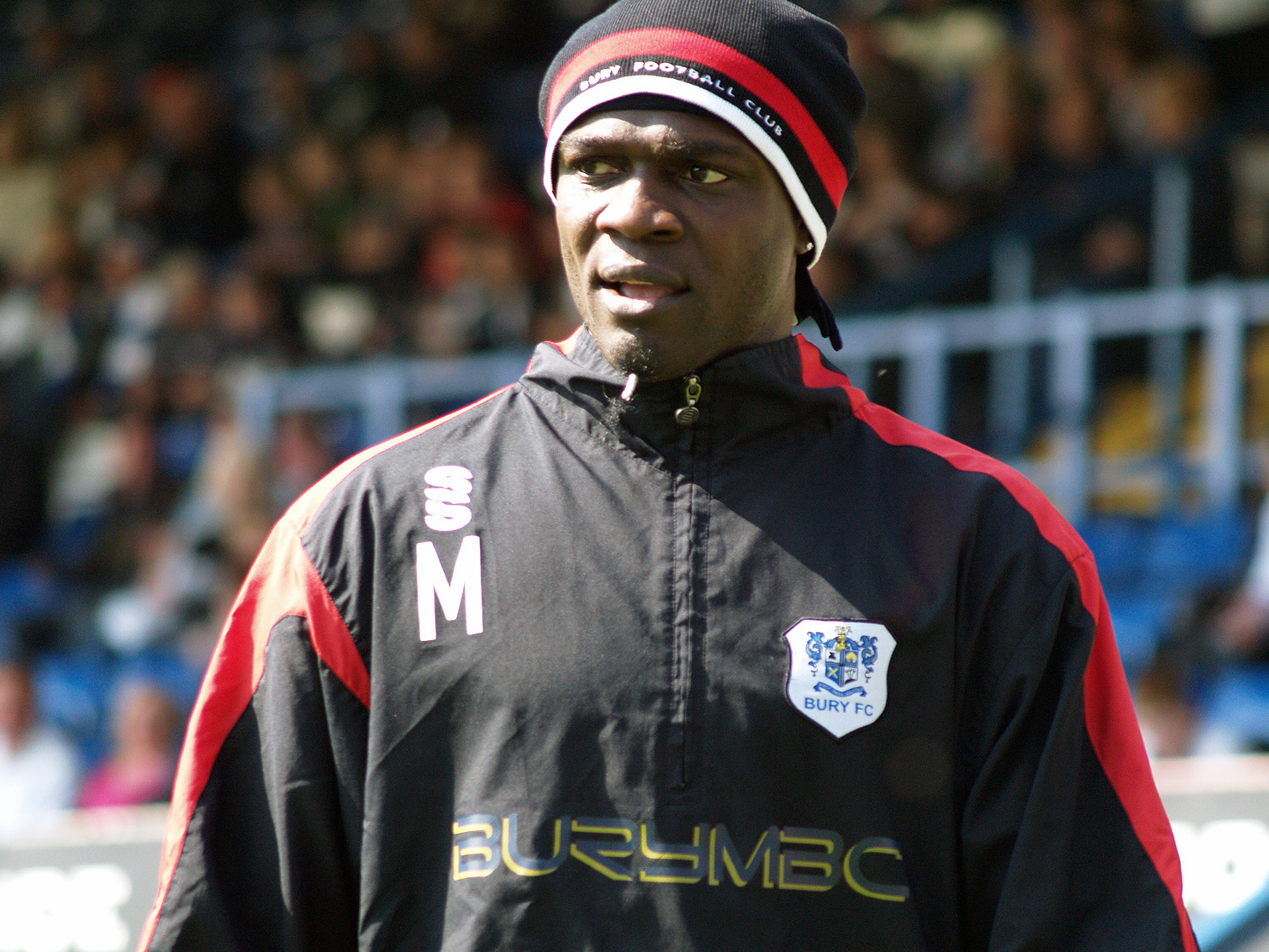 Bury FC defender Efetobore Sodje during the warm up at Gigg Lane, home of Bury Football Club prior to the Bury vs. Macclesfield Town game. Saturday 18th April 2009